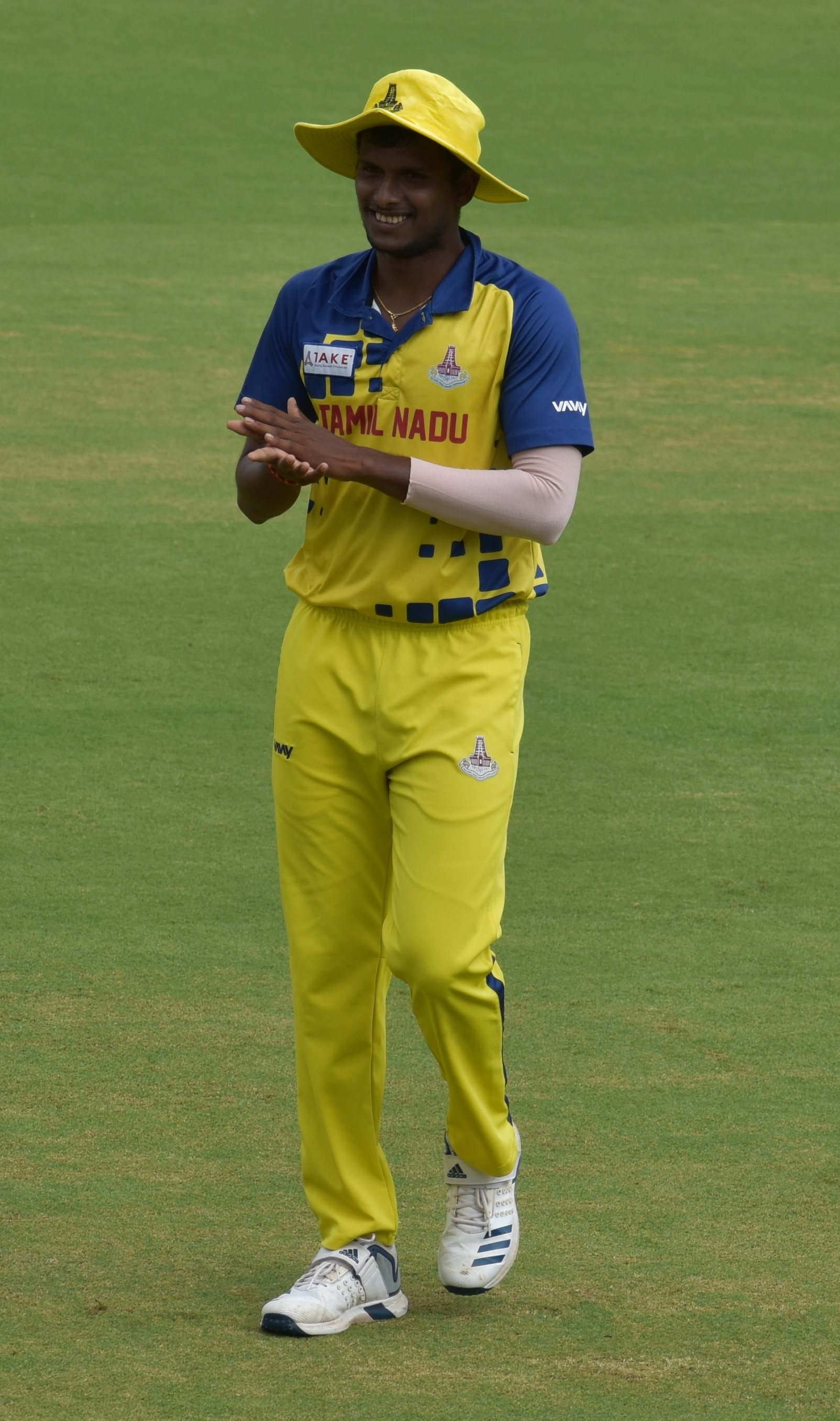 Indian cricketer T Natarajan during the 2019-20 Vijay Hazare Trophy in Alur, Bangalore.